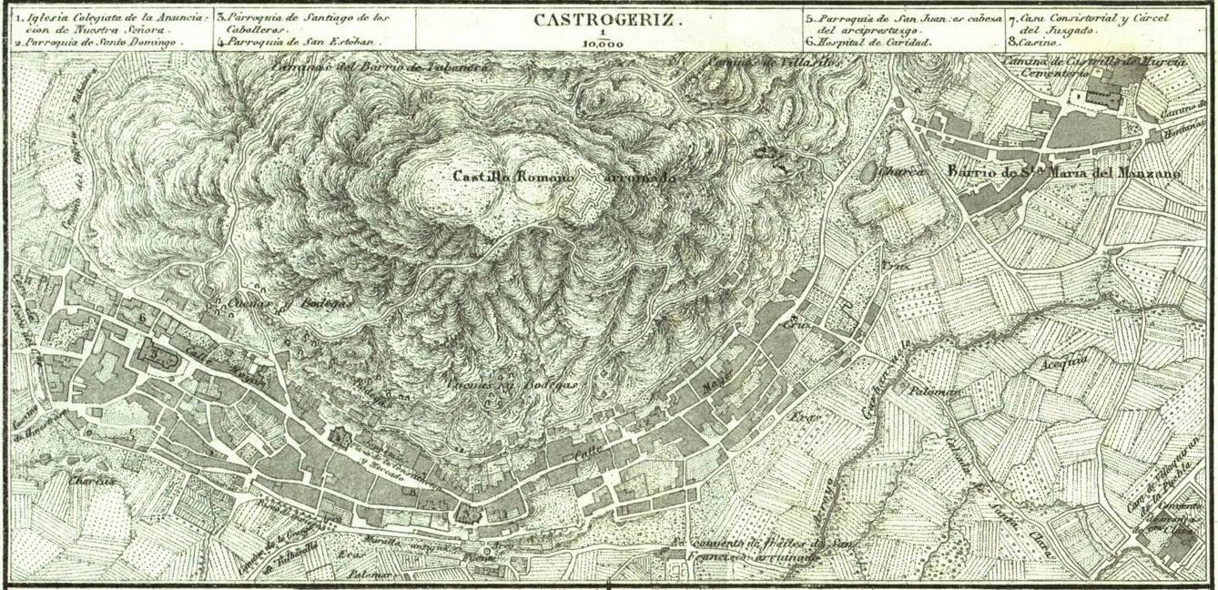 Map of Castrojeriz cropped from the 1868 province of Burgos map by Francisco Coello